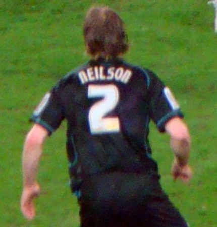 30/03/10 Cardiff V Leicester, Championship, Cardiff City Stadium, Cardiff, Wales (Image cropped from original at Flickr)